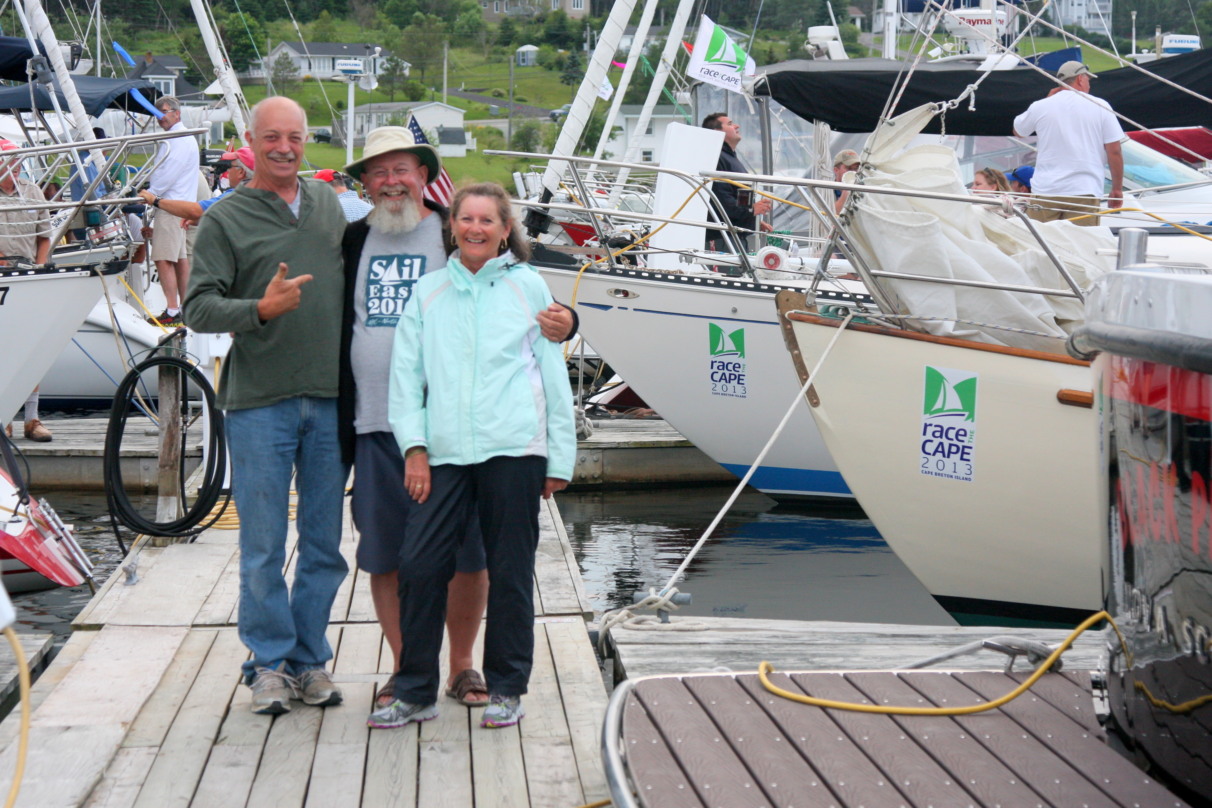 Sailboat racing is a long tradition in the Bras d'Or, with the various yacht clubs around lake hosting annual Regattas and race weeks. Regatta Week hosted by the Bras d'Or Yacht Club has been an annual tradition for over 100 years. Race the Cape was a point-to-point sail race of 175 nautical miles, broken into five legs of up to 40 nautical miles through the Bras d’Or Lake and along Cape Breton Island’s Atlantic coast leading north to the Cape Breton Highlands. Race the Cape was an International Sailing Federation – Off Shore Special Regulations (OSR) Category 4 Race, for both cruising boats and racing yachts. There were both Spinnaker and Non-Spinnaker Divisions. The last RTC Regatta was held in 2017.